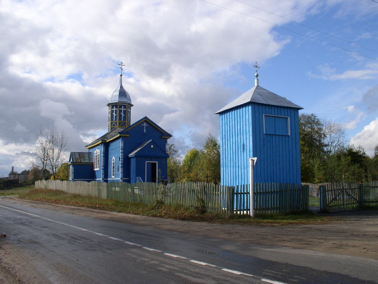 Church of Saint George. Vyalikiya Kruhovichy, Belarus